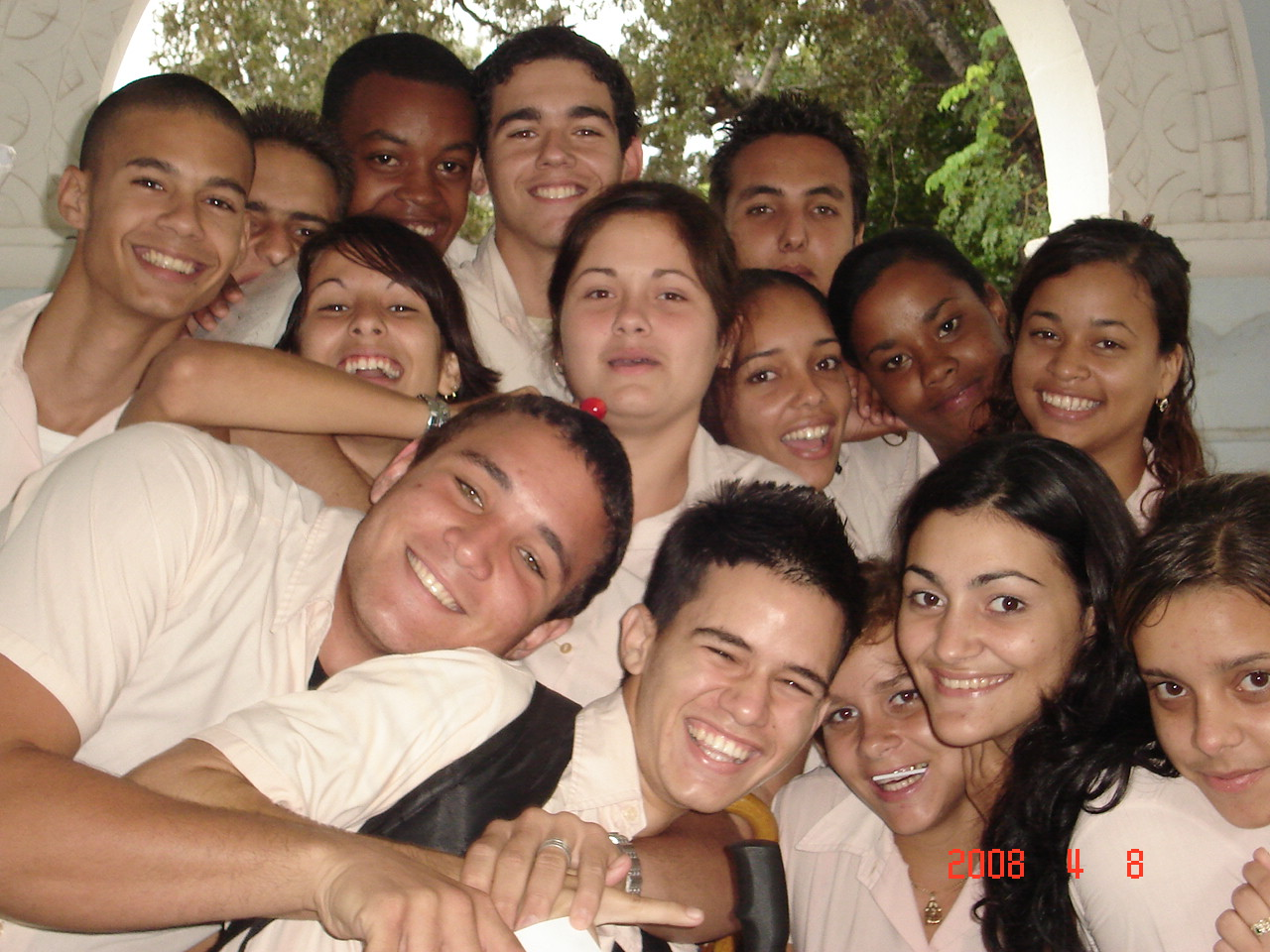 alex friends.JPG